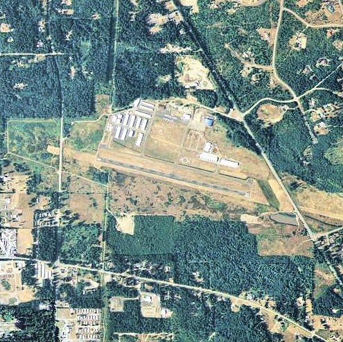 USGS digital orthophoto of Jefferson County International Airport in the U.S. state of Washington